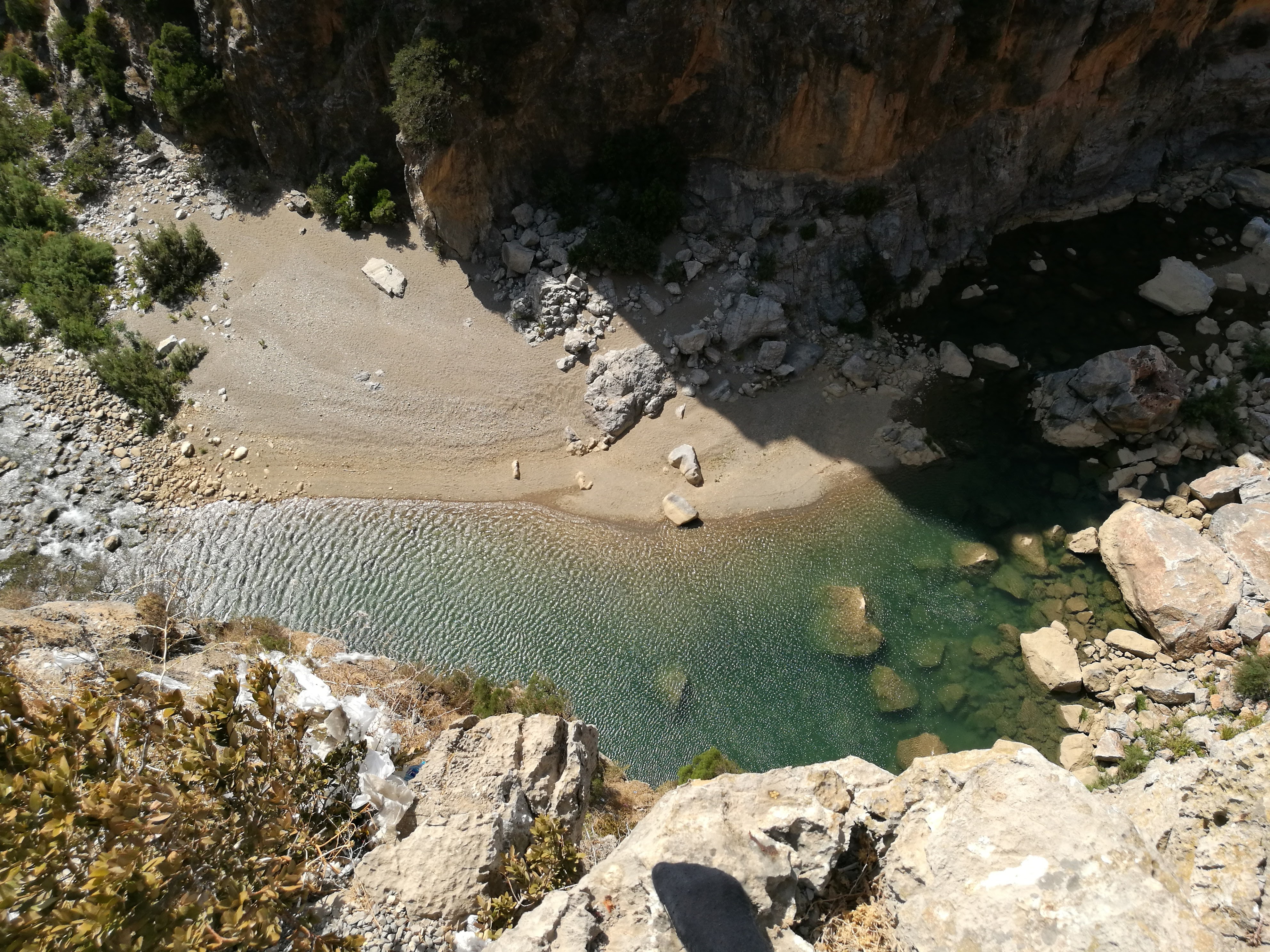 River Of Wadloua road To Akchour